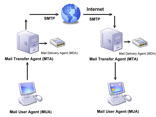 Монгол: how to work mail server